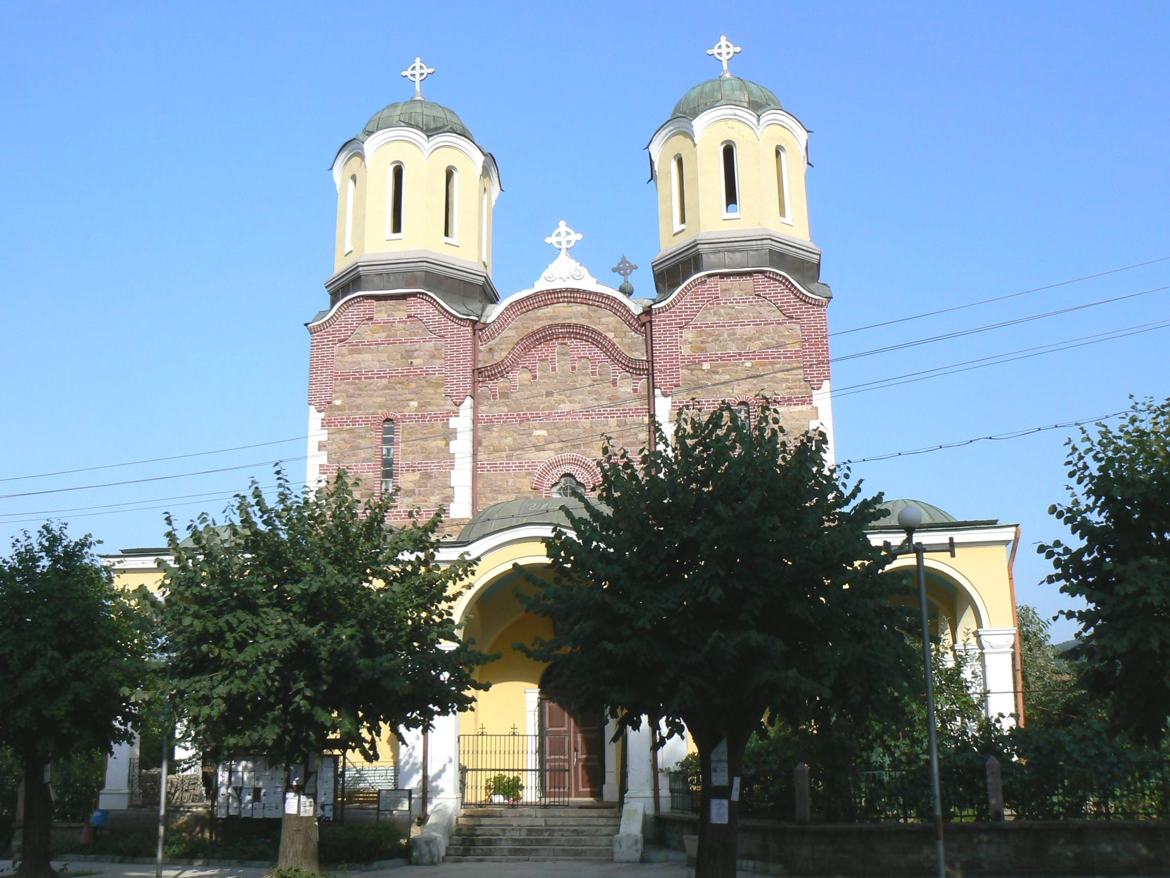 "Saint George" Church in Varshets, Bulgaria